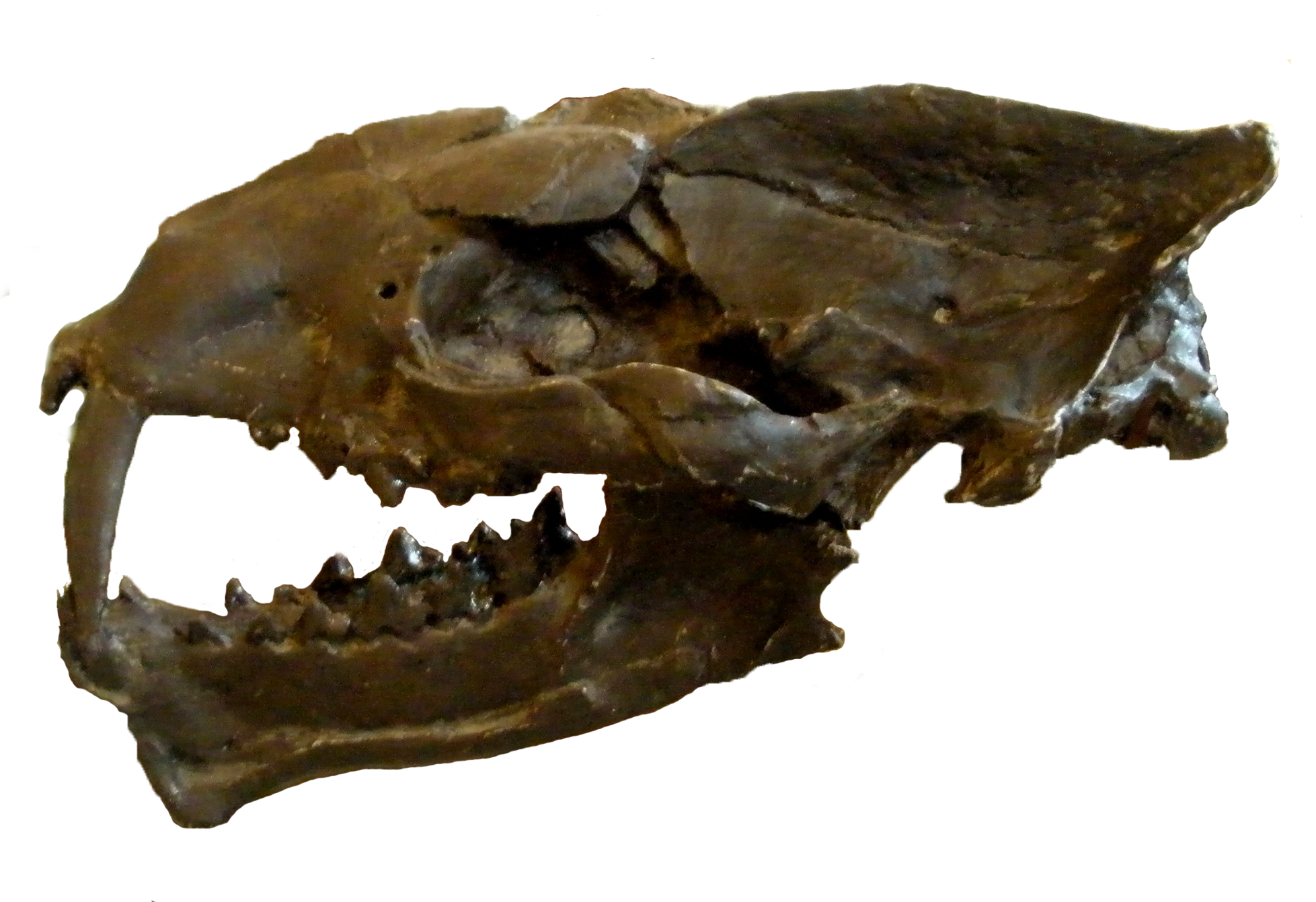 Skull of Machaeroides eothen, a fossil creodont.